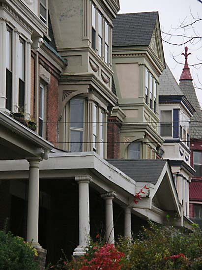 Houses in Cedar Park in West Philadelphia